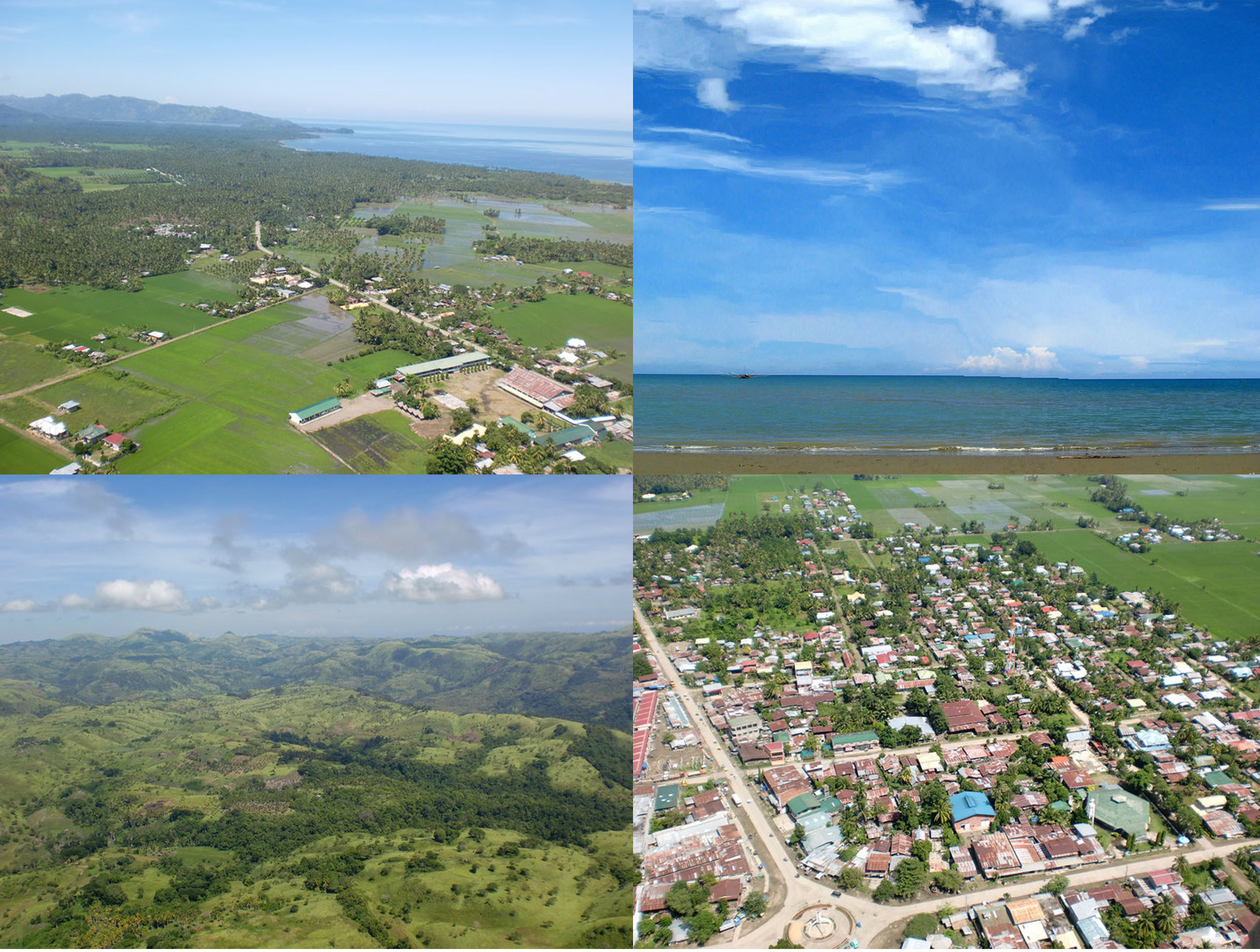 Aerial photo of Lebak